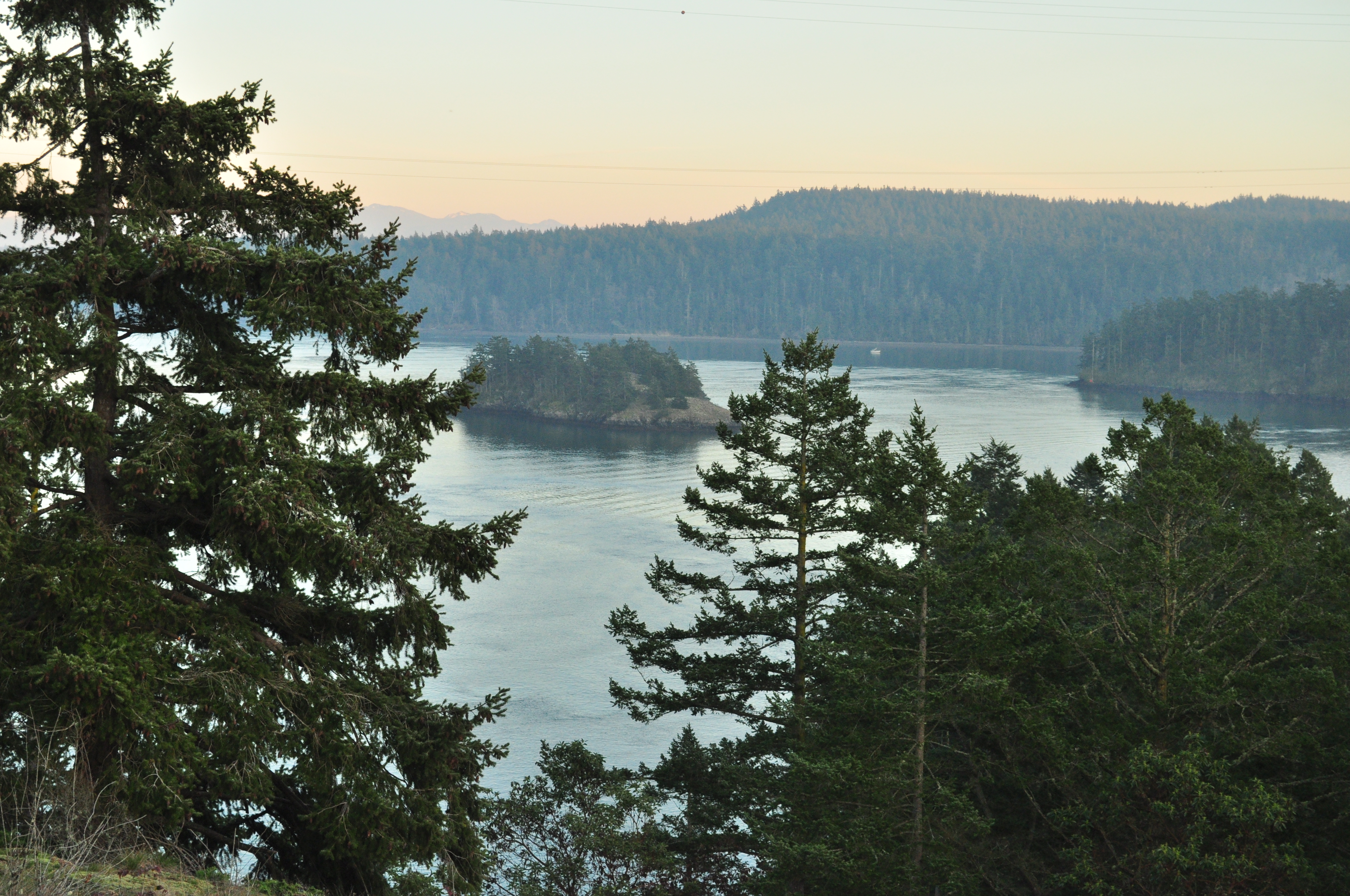 Strawberry Island, Deception Pass State Park, looking roughly east from Pass Island.